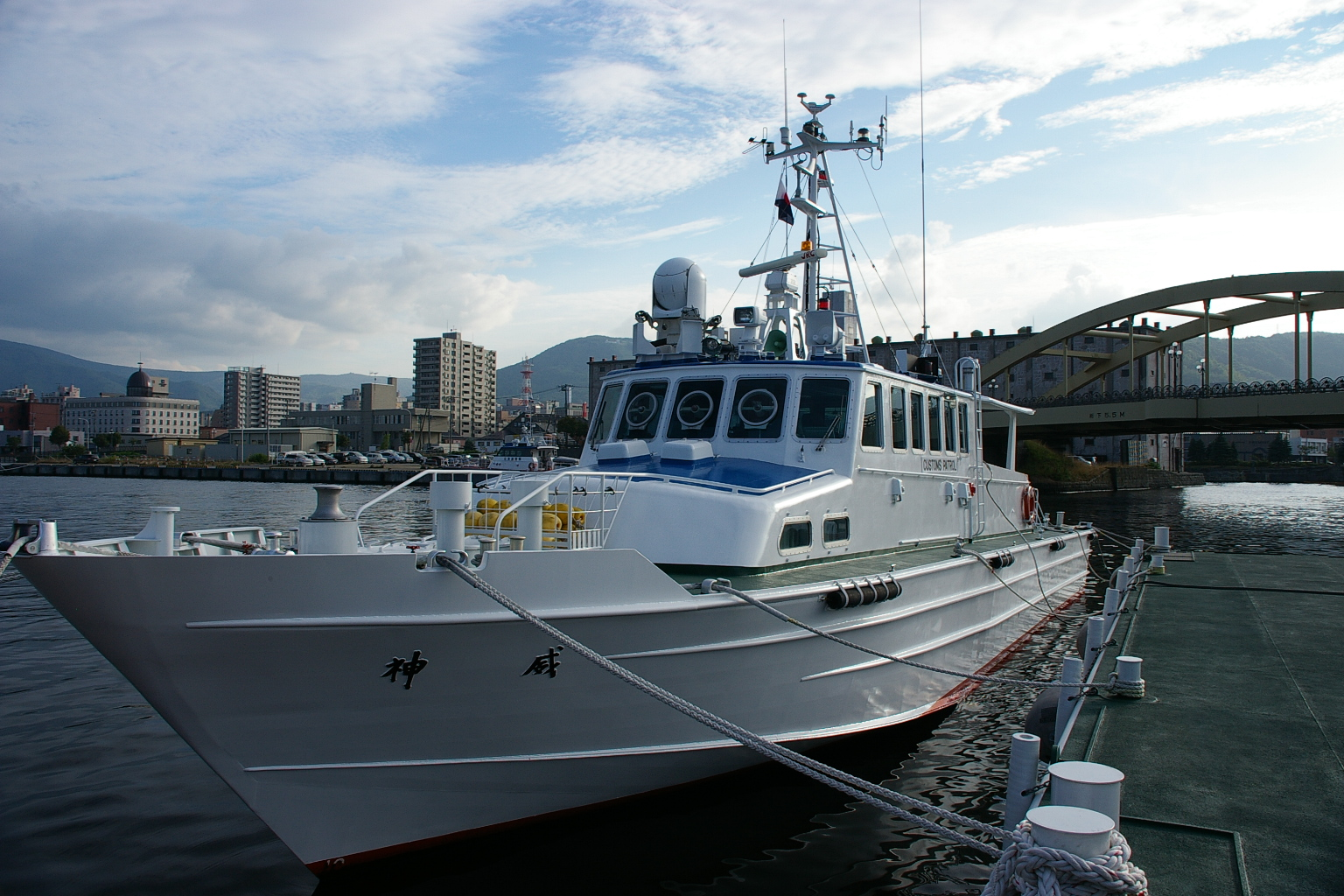 Japan customs Otaru branch surveillance ship KAMUI.